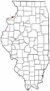 Location of Rock Island, Illinois.